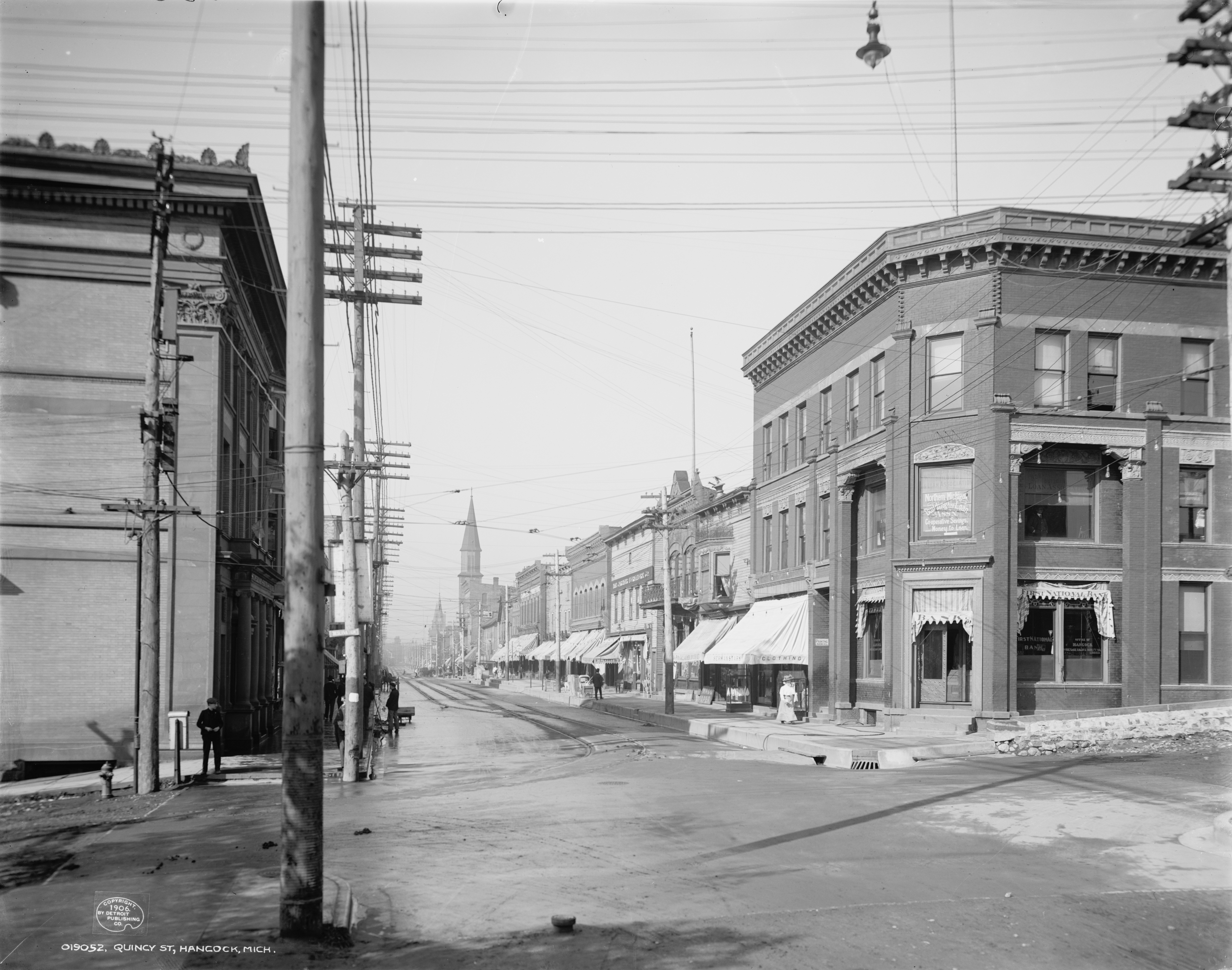 Quincy Street — Hancock, Michigan.